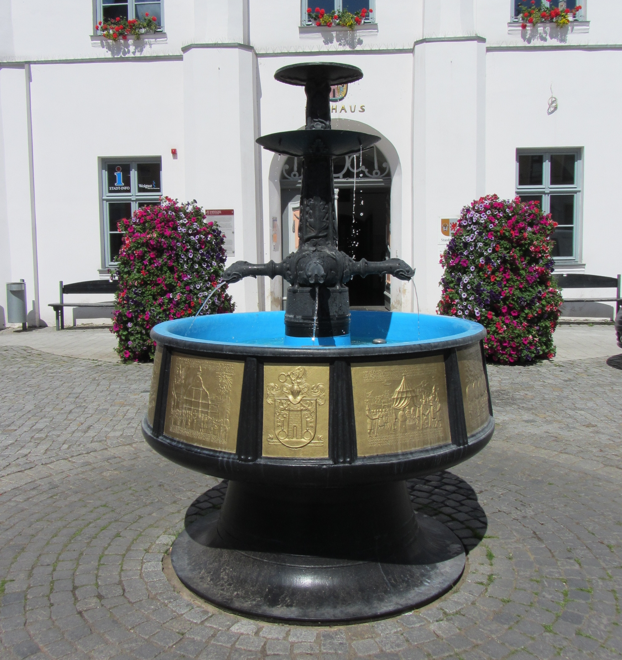 Fountain on the Rathausplatz in Wolgast, district Vorpommern-Greifswald, Mecklenburg-Vorpommern, Germany